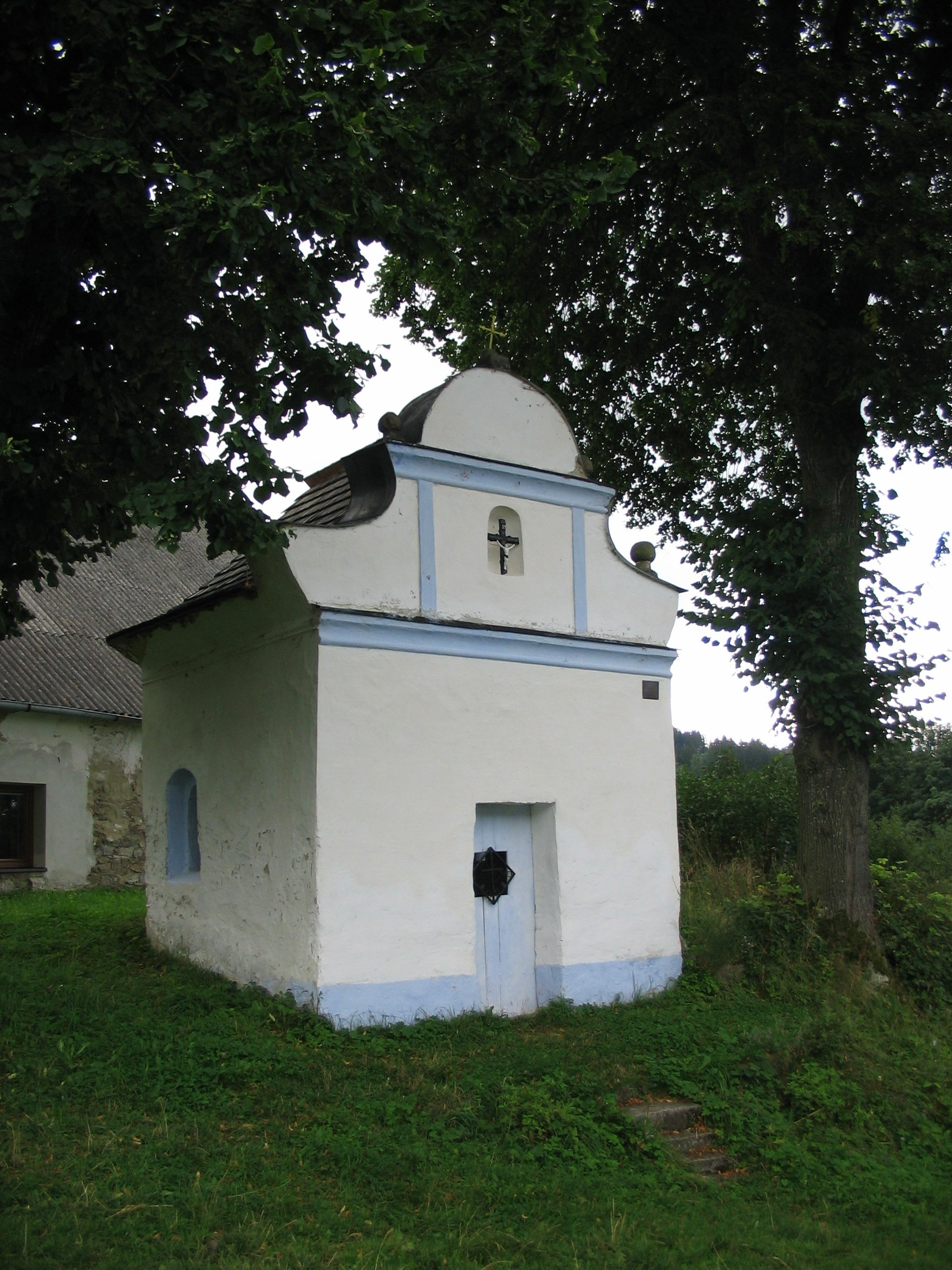 Chapel in Kavrlík, Klatovy District, Czech Republic